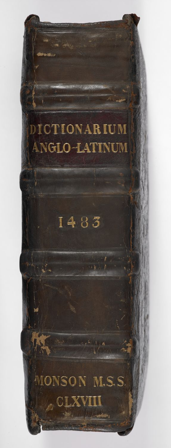 Style: Panel design; Caption: Spine; Colour: Brown; Edge: Unspecified